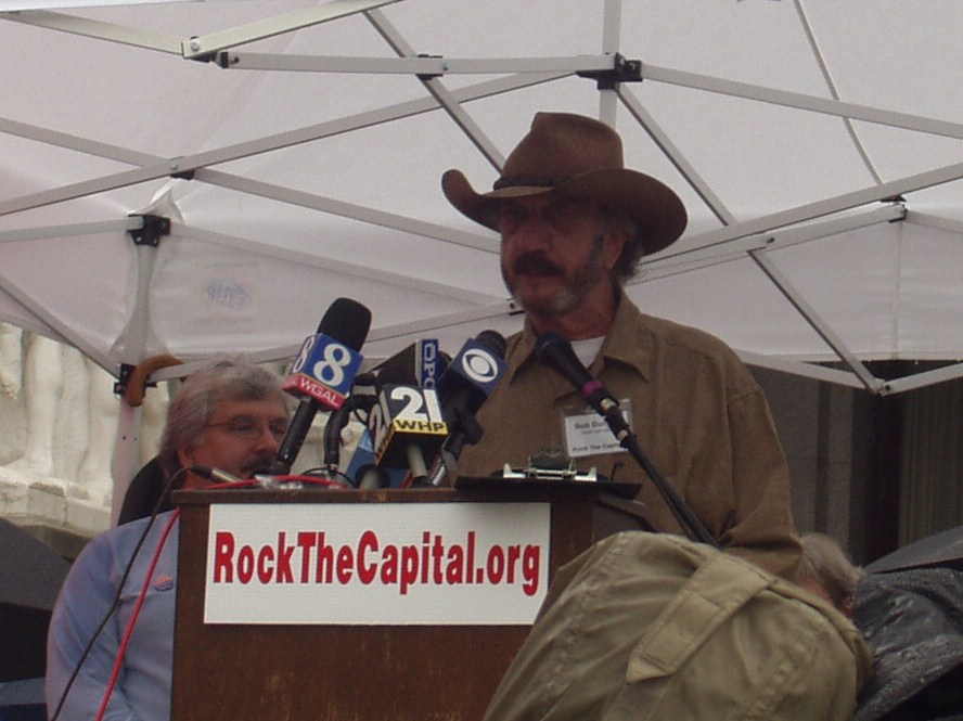 PACleanSweep Rally against the 2005 Pennsylvania General Assembly pay raise.